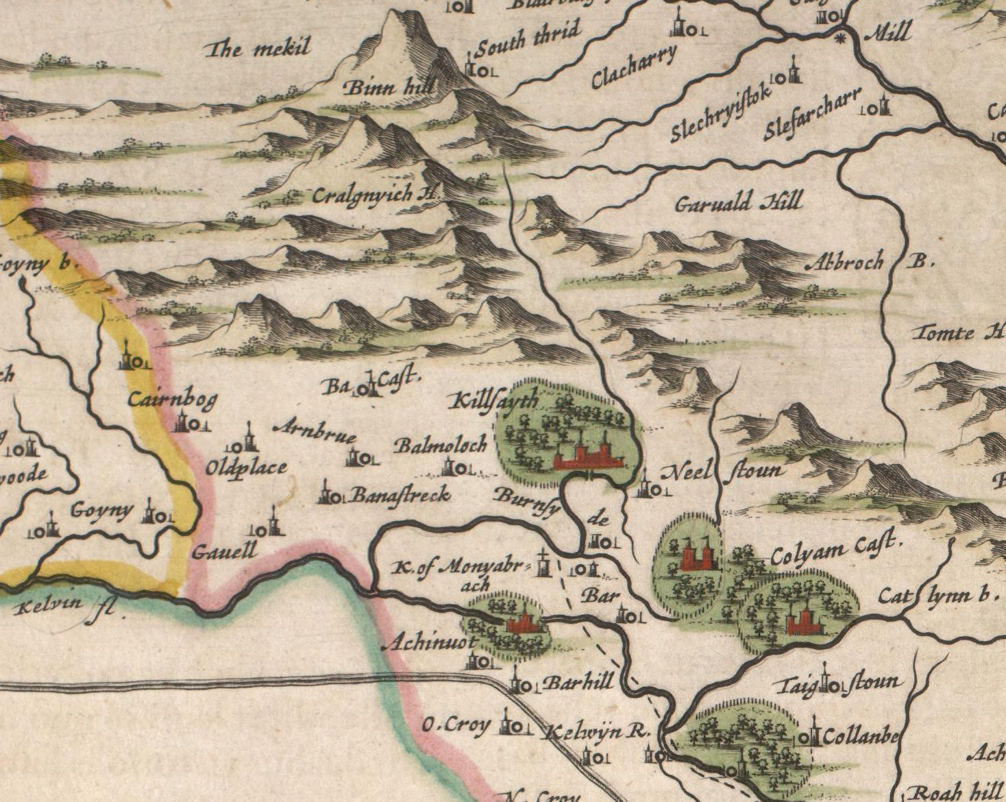 section of Blaeu's map based on Pont's map of the area around Kilsyth.